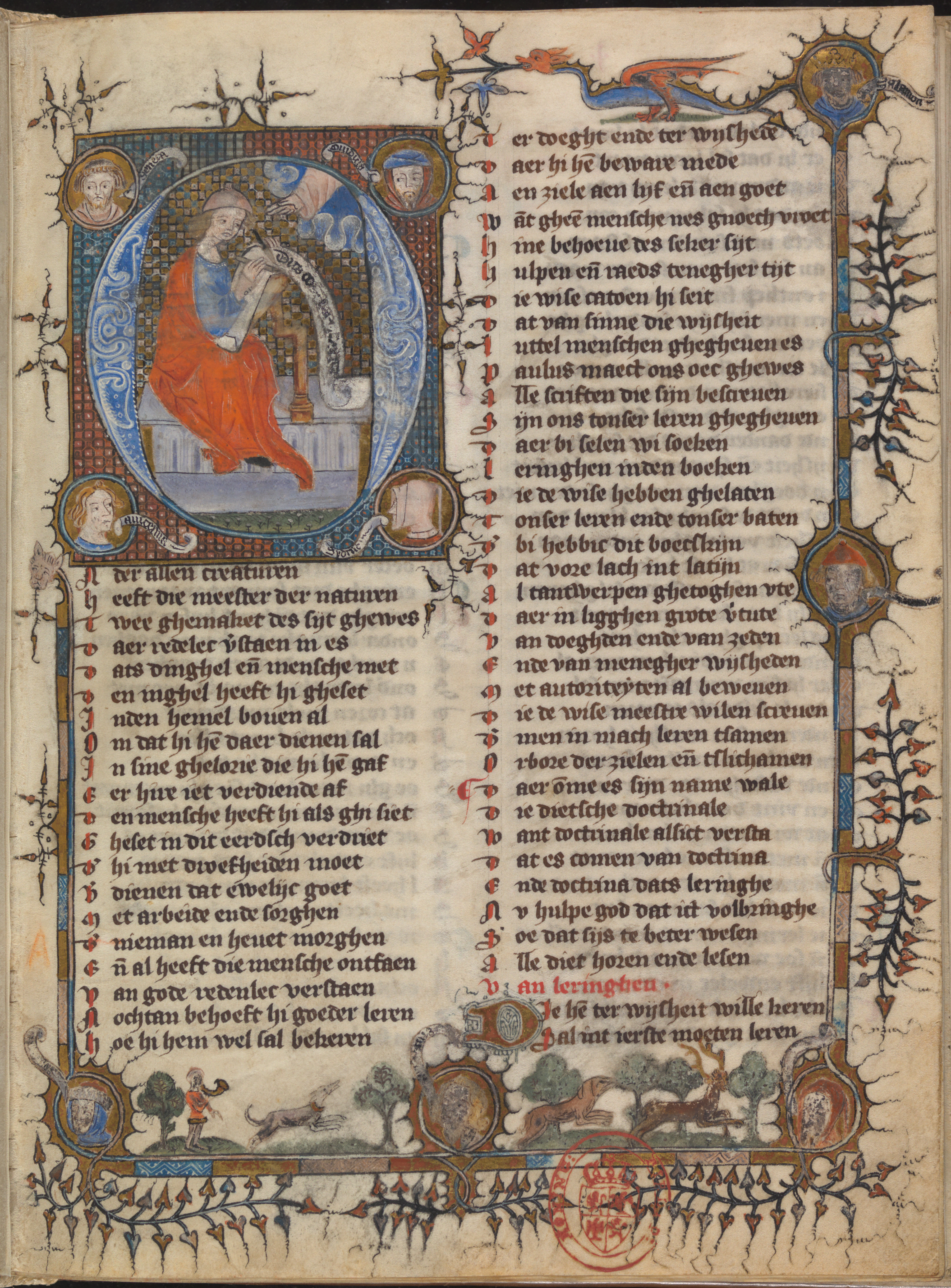 Die Dietsche Doctrinale, folium 001r. This text is part of the manuscript containing Die Dietsche Doctrinale by Jan van Boendale, Beatrijs, Dit es vanden aflate van Rome, Die heimelicheit der heimelicheden by Jacob van Maerlant and other texts - KB 76 E 5 About the illumination The historiated initial shows Albertan of Brescia(?) and four philosophers: Seneca, Ovid, Avicenna and Sidrach Author, poet writing (48C911) Scholar, philosopher (+ portrait of scholar, scientist) (49C3(+3)) Roman script; scripts based on the roman alphabet (o) (49L12(O)) Historiated initial (49L171) Historical person (albertan of brescia) - scene directly related with life or life-story (albertan of brescia) (OF BRESCIA)21 61B2(ALBERTAN OF BRESCIA)21) Historical person (avicenna) - historical person (avicenna) portrayed alone (+ compositional variants of portrait) (61B2(AVICENNA)11(+5)) Historical person (sidrach) - historical person (sidrach) portrayed alone (+ compositional variants of portrait) (61B2(SIDRACH)11(+5)) (story of) ovid - portrait of person from classical history (+ head, bust, etc.) (98B(OVID)9(+5)) (story of) seneca - portrait of person from classical history (+ head, bust, etc.) (98B(SENECA)9(+5))